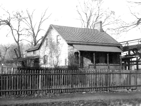 Photograph of the Old Stone House, Plymouth, Luzerne County, PA